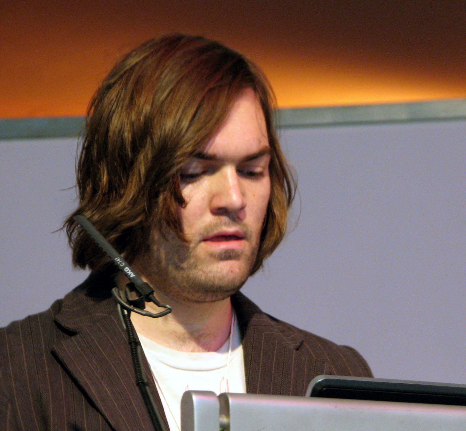 Photo of why the lucky stiff at RailsConf Europe 2006 in London.